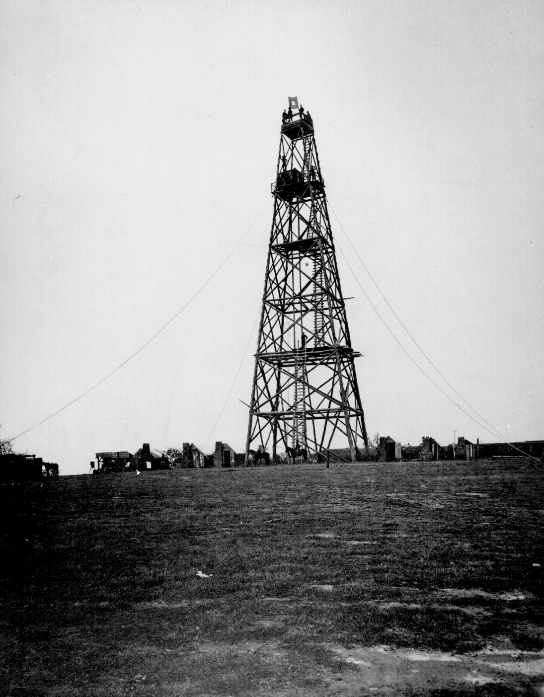 Signal Tower at Cobb's Hill, near New Market, Virginia, 1864.